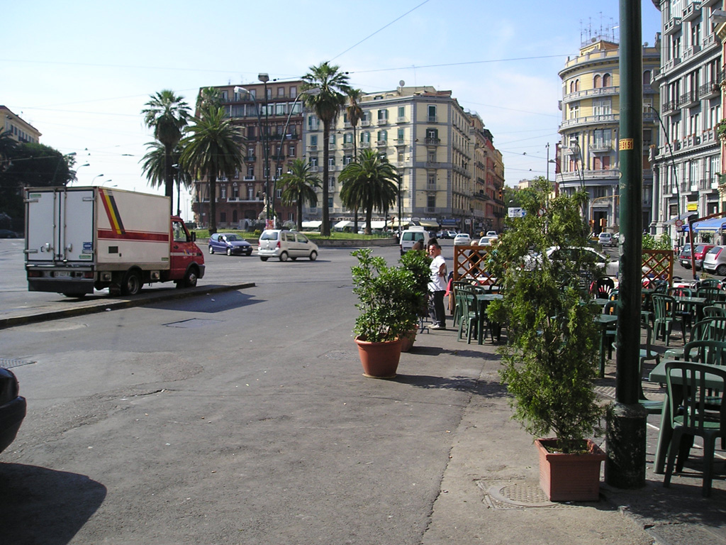 Sannazzaro square in Naples.